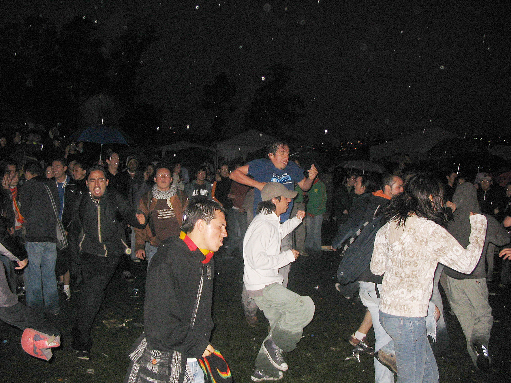 CPLPermission is granted to copy, distribute and/or modify this document under the terms of the Common Public License published by IBM; with no Invariant Sections, no Front-Cover Texts, and no Back-Cover Texts. A copy of the license is included in the section entitled "Text of the Common Public License." Ritual del mosh..